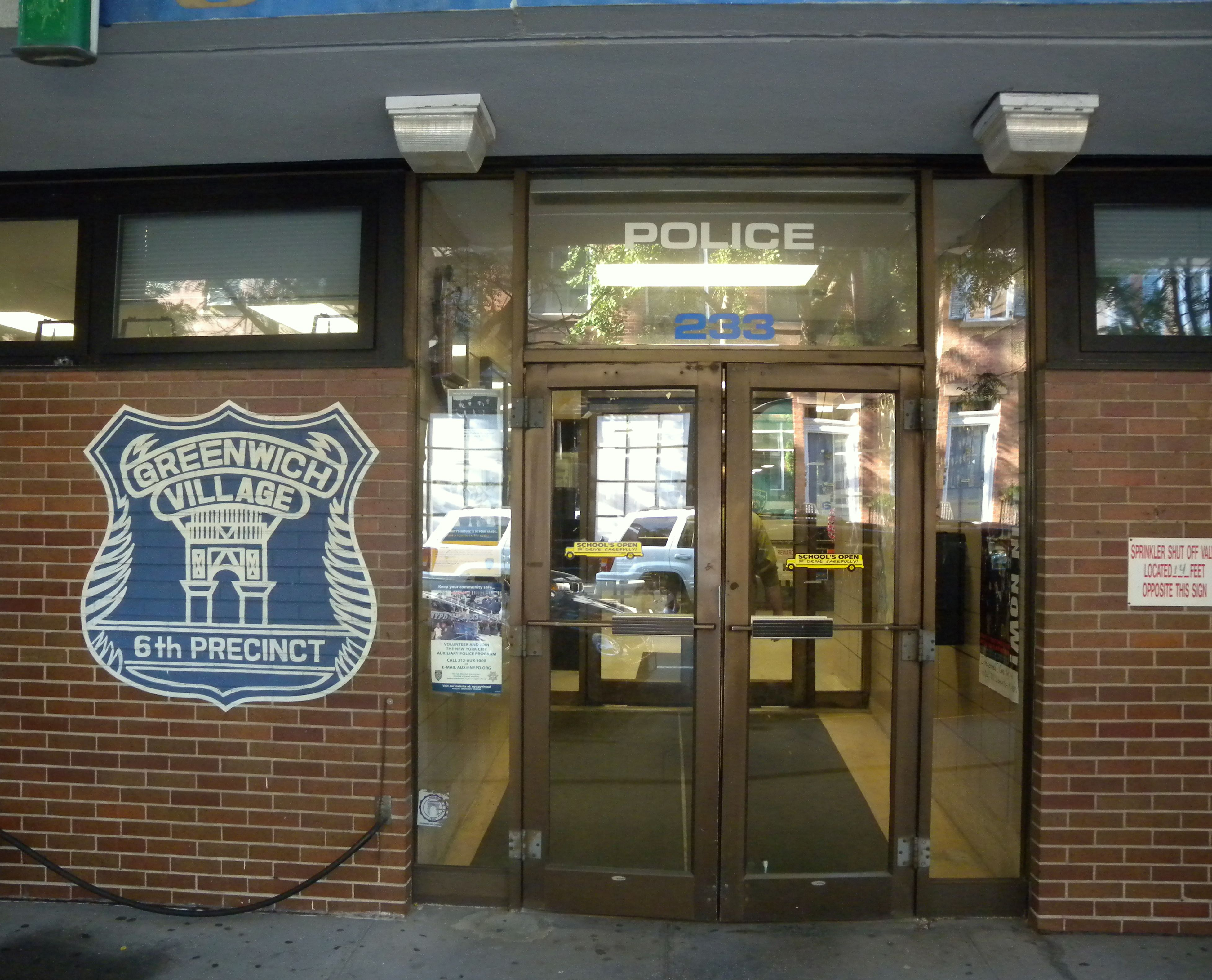 Cropped and level adjusted version.